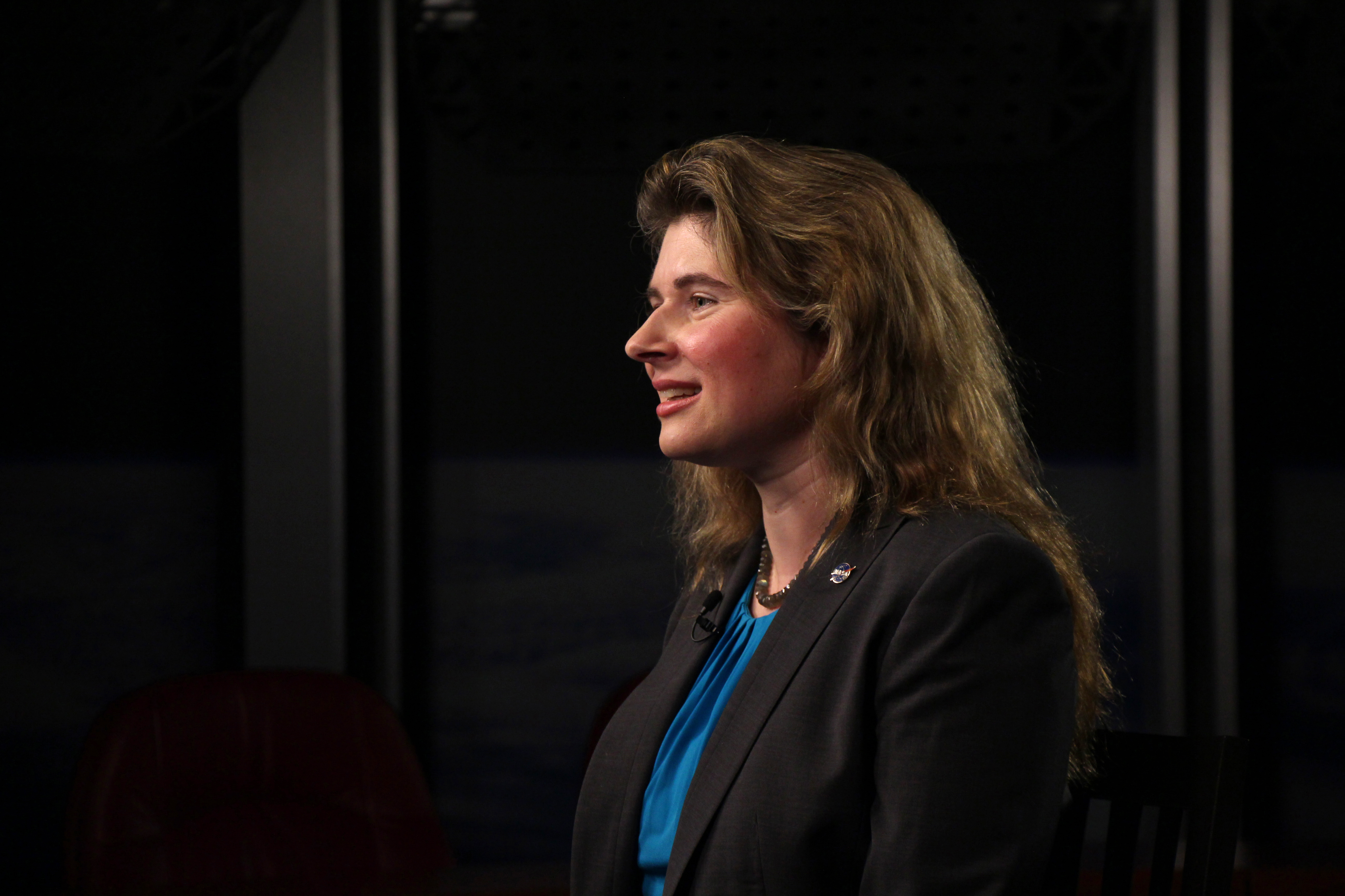 Photo of Michelle Thaller during media interviews the morning before the launch of the Landsat Data Continuity Mission (LDCM), Monday Feb. 11, 2013 from the Goddard's television studio.